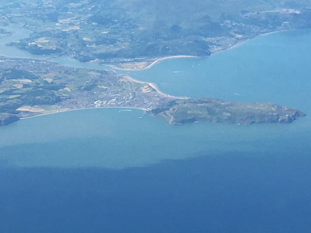 Aerial view of Llandudno and the Great Orme